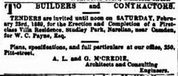 Advertisement for builders to construct Studley Park, Camden, NSW in 1889.